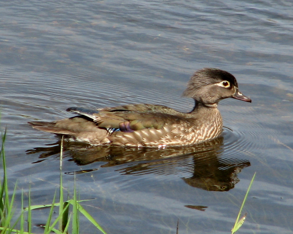 Wood Duck (Aix sponsa), Rideau River, Ottawa, Ontario, Canada